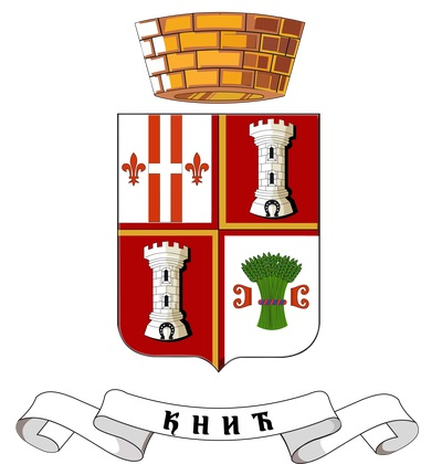 Medium Coat of Arms of Knic